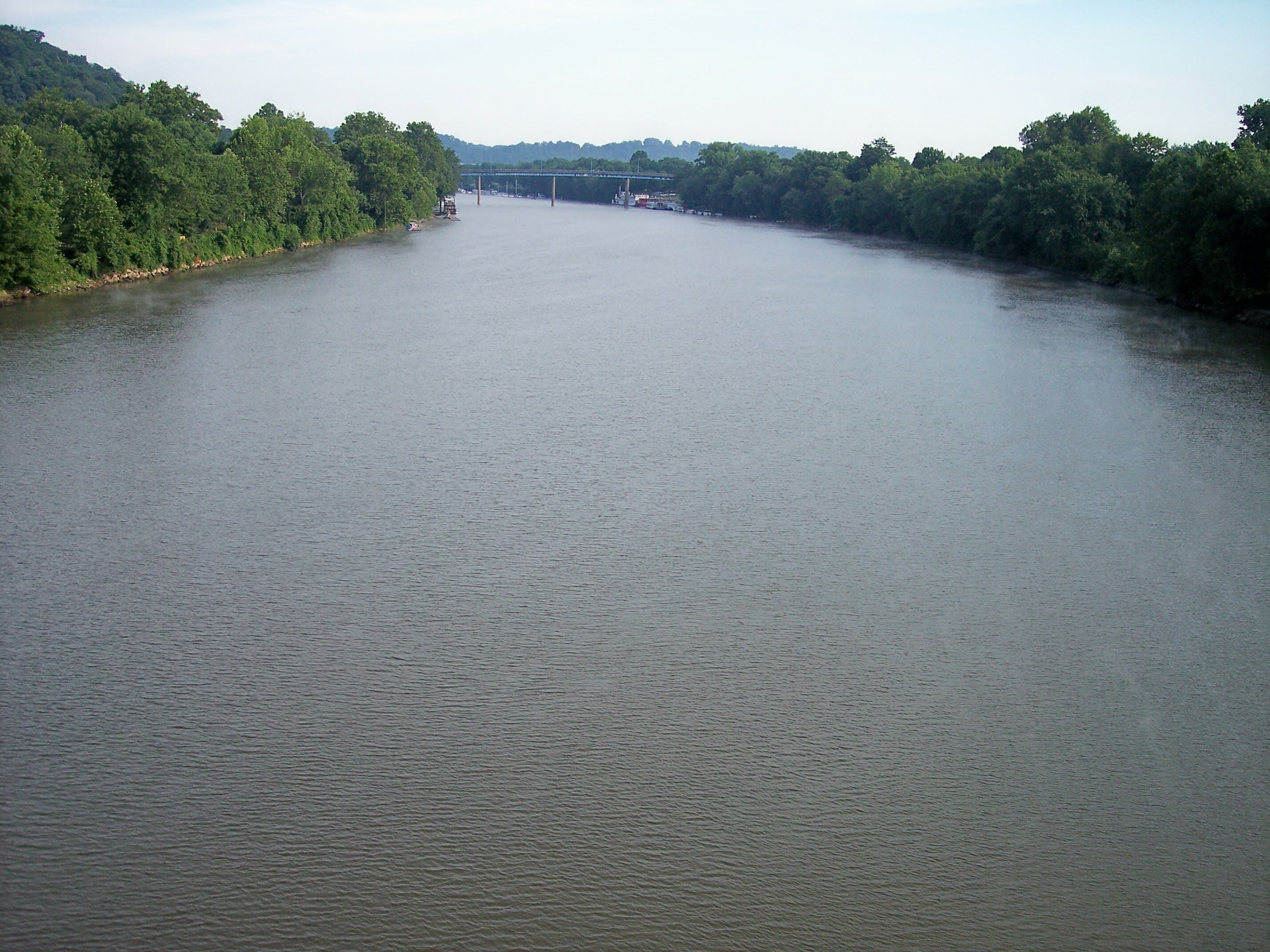 The Muskingum River near its mouth, as viewed upstream from the Putnam Street Bridge in downtown Marietta, Ohio. The bridge in the distance carries Ohio State Route 7.